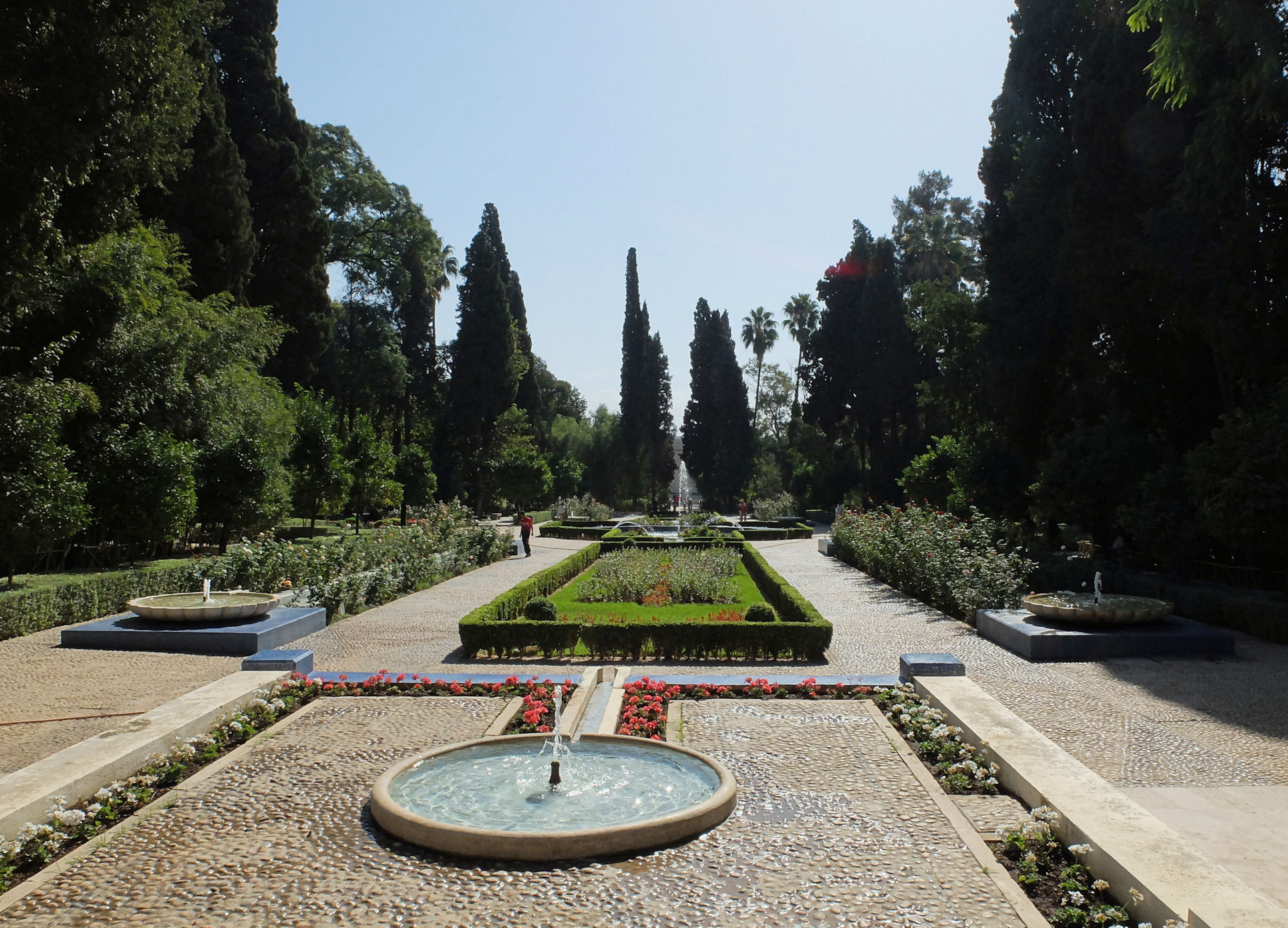 Jnan Sbil Gardens, looking south.